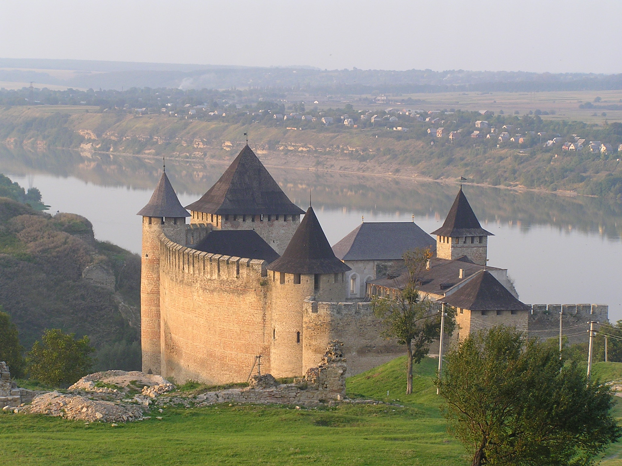 Khotyn Fortress